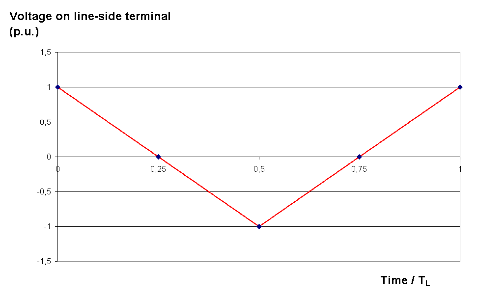 English version of File:Tension ligne.PNG, also own made